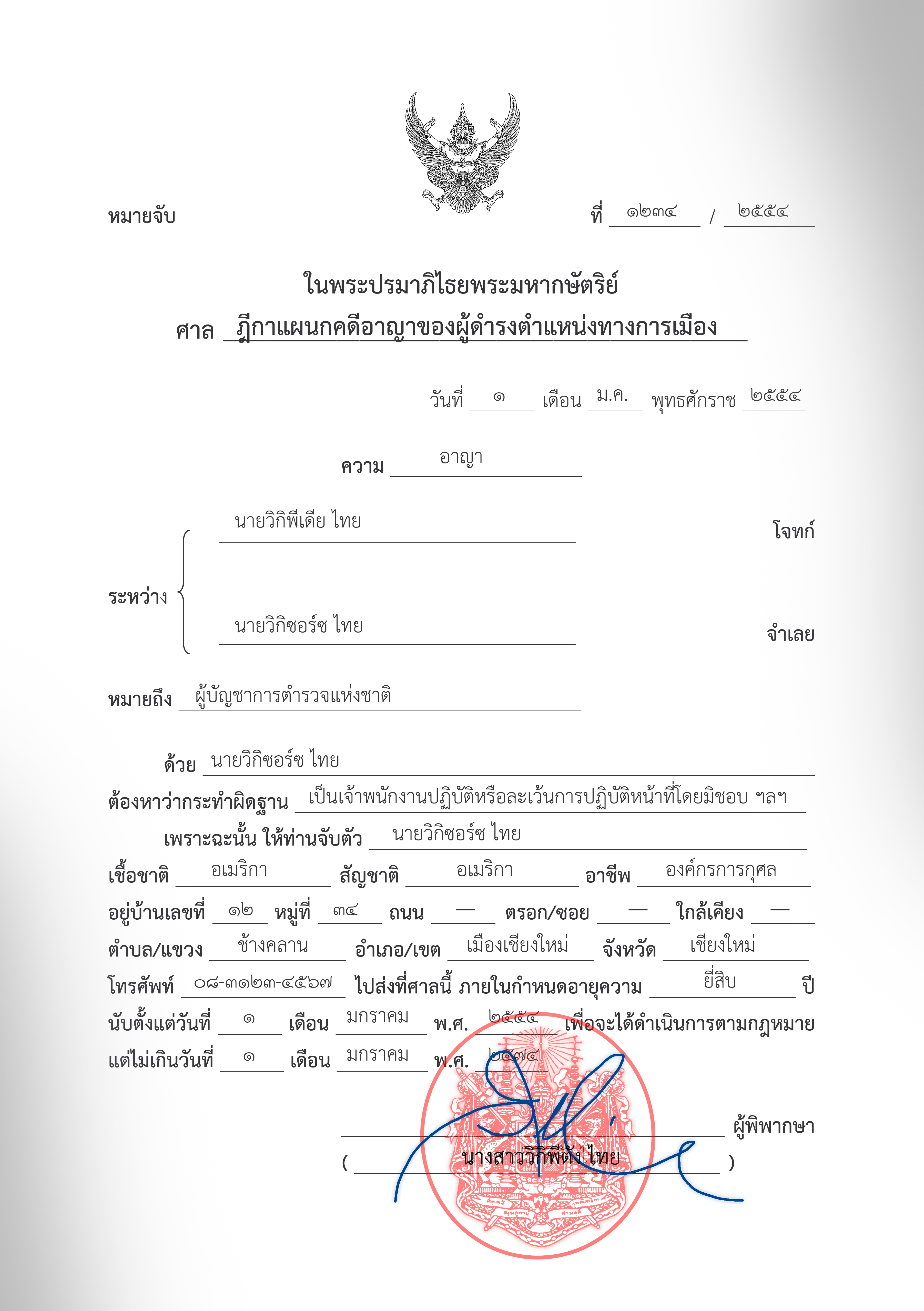 An example of a filled and signed warrant of arrest according to the Ordinance of the President of the Supreme Court of Justice on Criteria and Procedure for Issuance of Criminal Rulings or Warrants, BE 2548 (2005) (ข้อบังคับของประธานศาลฎีกา ว่าด้วยหลักเกณฑ์และวิธีการเกี่ยวกับการออกคำสั่งหรือหมายอาญา พ.ศ. ๒๕๔๘) issued under the Thai Code of Criminal Procedure (1935). The main text reads: "To the National Police Commander.WHEREAS Mr Wikisource THAI is accused of, whilst being a public officer, unlawfully performing or refraining from a public duty, etc.YOU ARE HEREBY COMMANDED to arrest the said Mr Wikisource THAI, who is of American Nationality, is of American Race, is a member of a charitable organisation and resides at No. 12, Mu 31, Thanon -, Trok/Soi -, adjacent to -, Tambon/Khwaeng Chang Khlan, Amphoe/Khet Mueang Chiang Mai, Changwat Chiang Mai, Tel. 08-3123-4567, and to bring him before this Court within twenty-year prescription which shall be counted from 1 January 2011 to 1 January 2031, so that the mentioned person would be dealt with according to the law.[Signed and Sealed] Ms Wikipe-tan THAI, Judge."